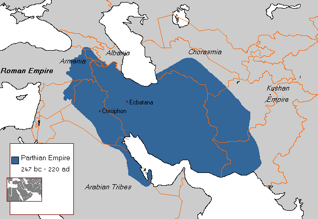 The Parthian Empire in 001 AD